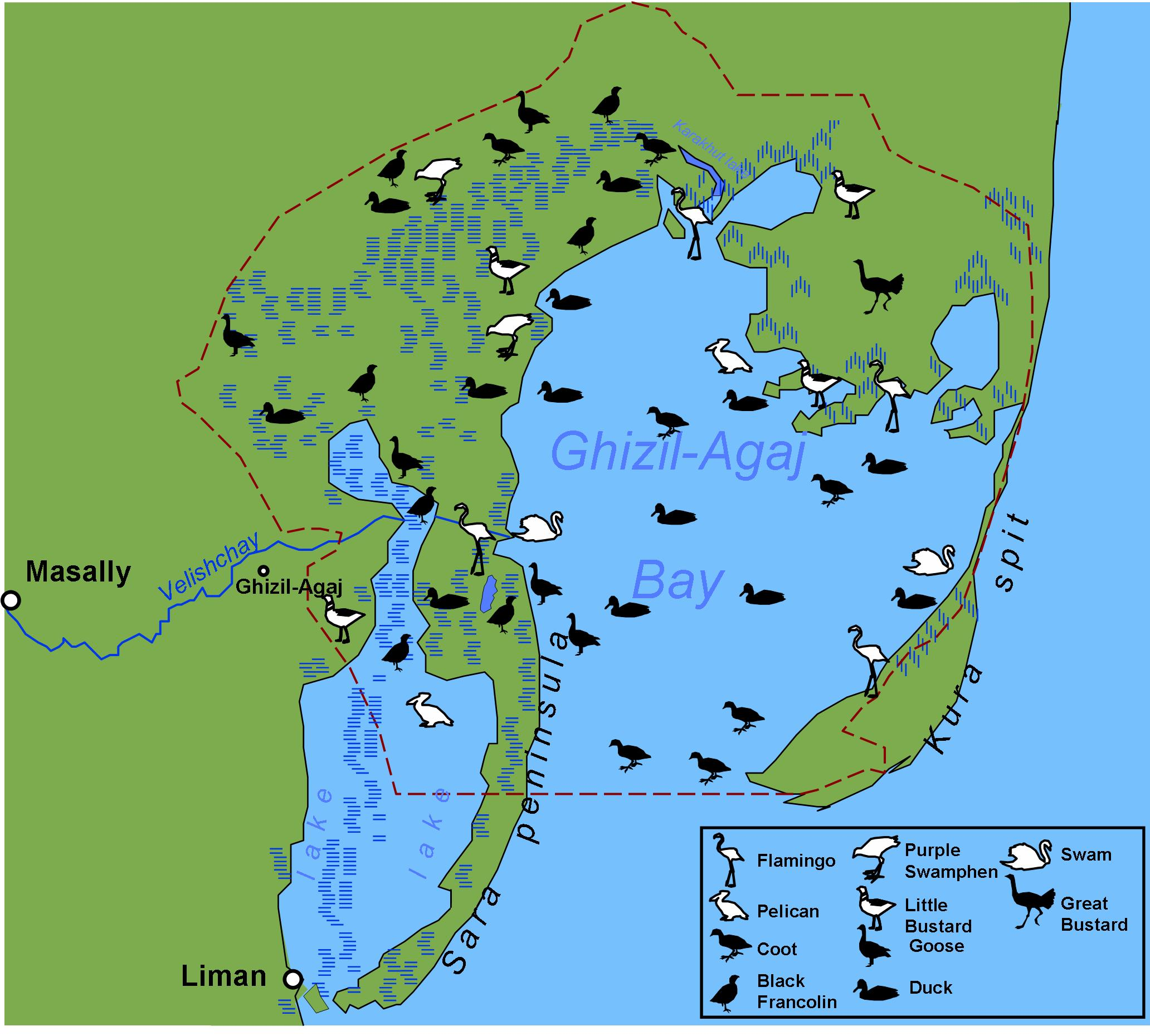 Gizil-Agach State Reserve